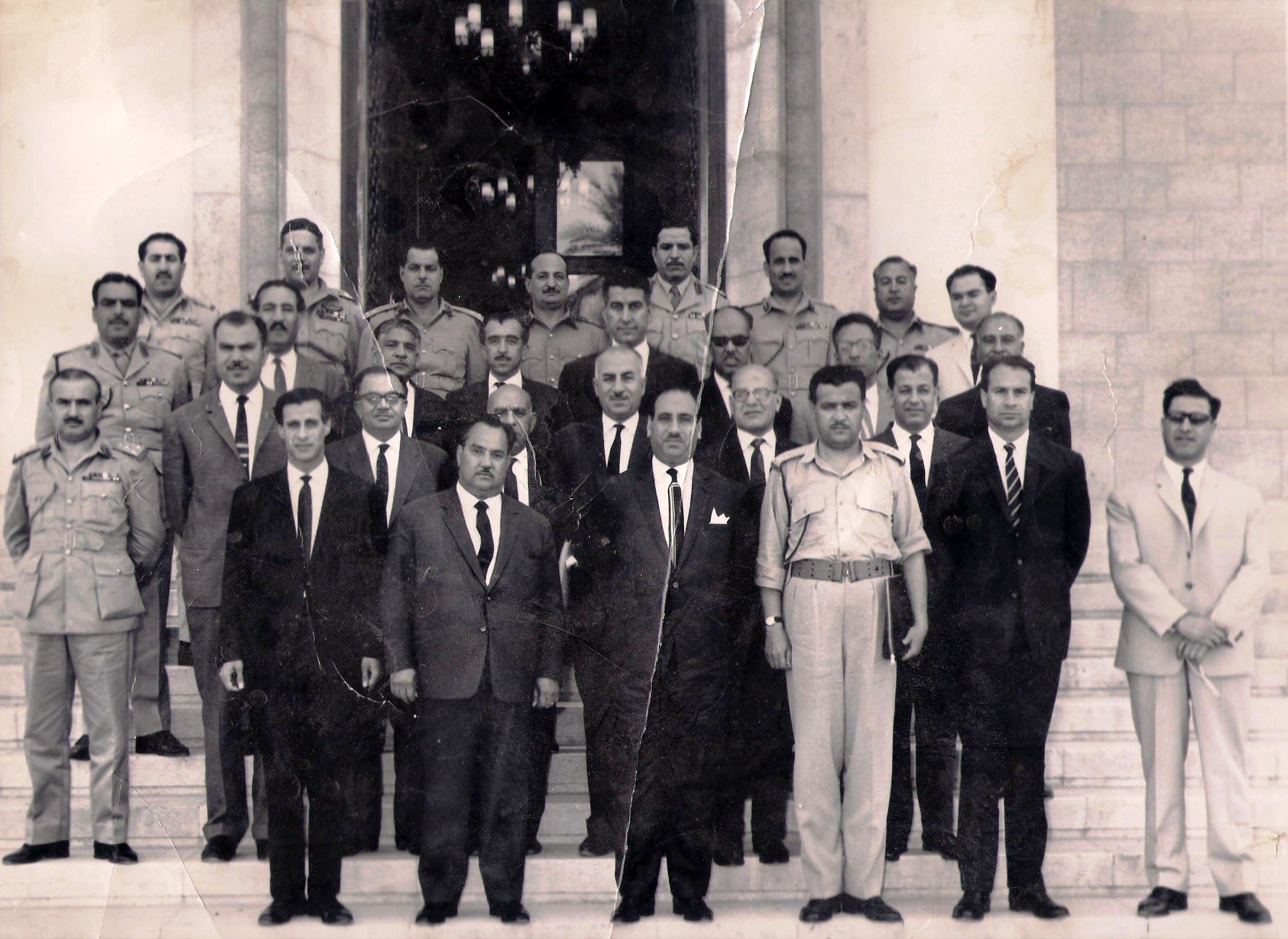 Abd as-Salam Arif (1921-1966), President of Iraq 1963-1966